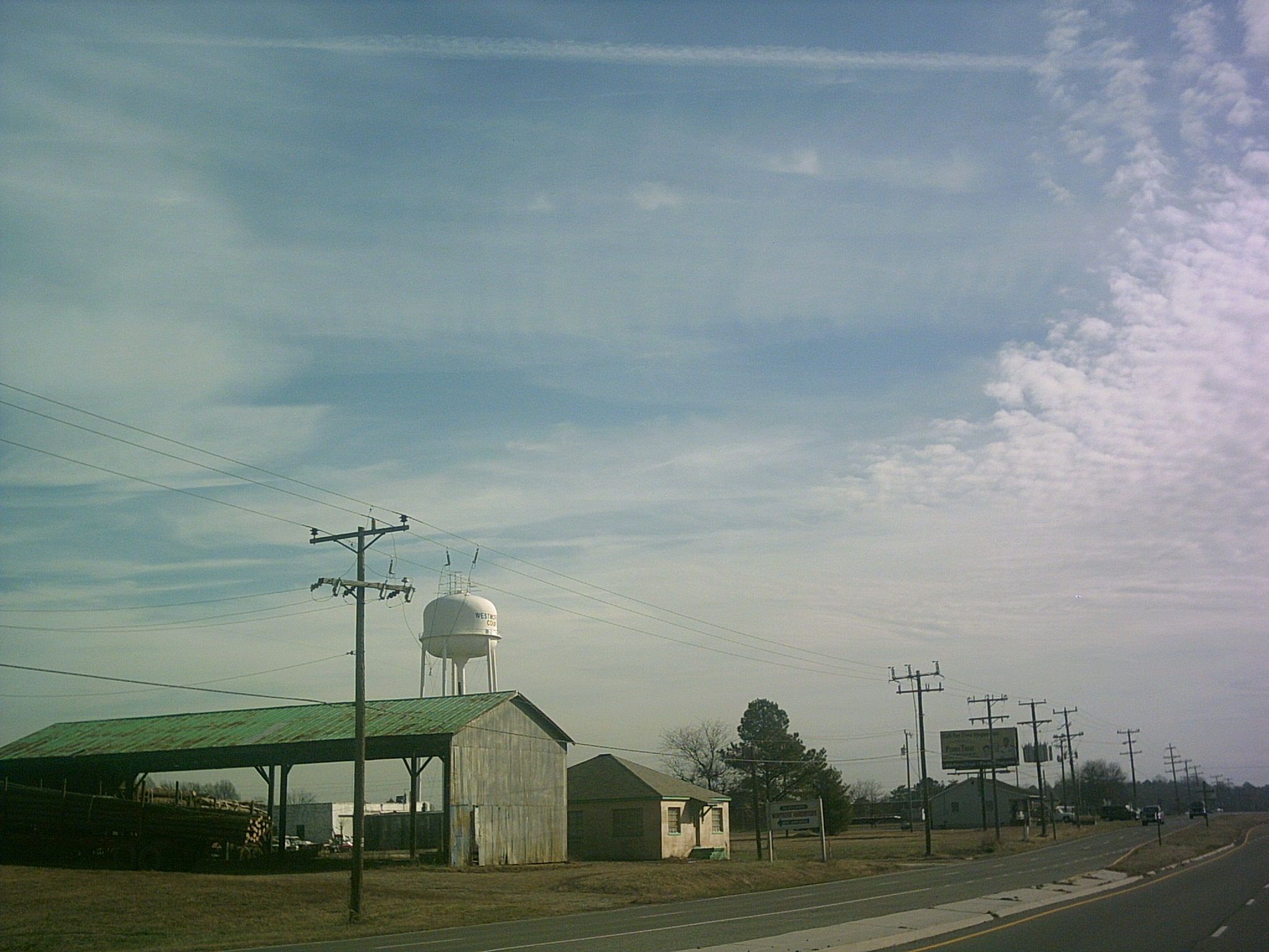 Westmoreland County water tower